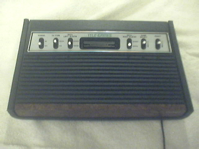 Sears Tele Games Video Arcade, early six switch version, otherwise known a a Sears "Heavy Sixer". This is the first Sears brand version of the popular Atari 2600 console.